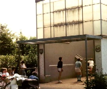 Eton Fives Court in Rheinberg, Germany